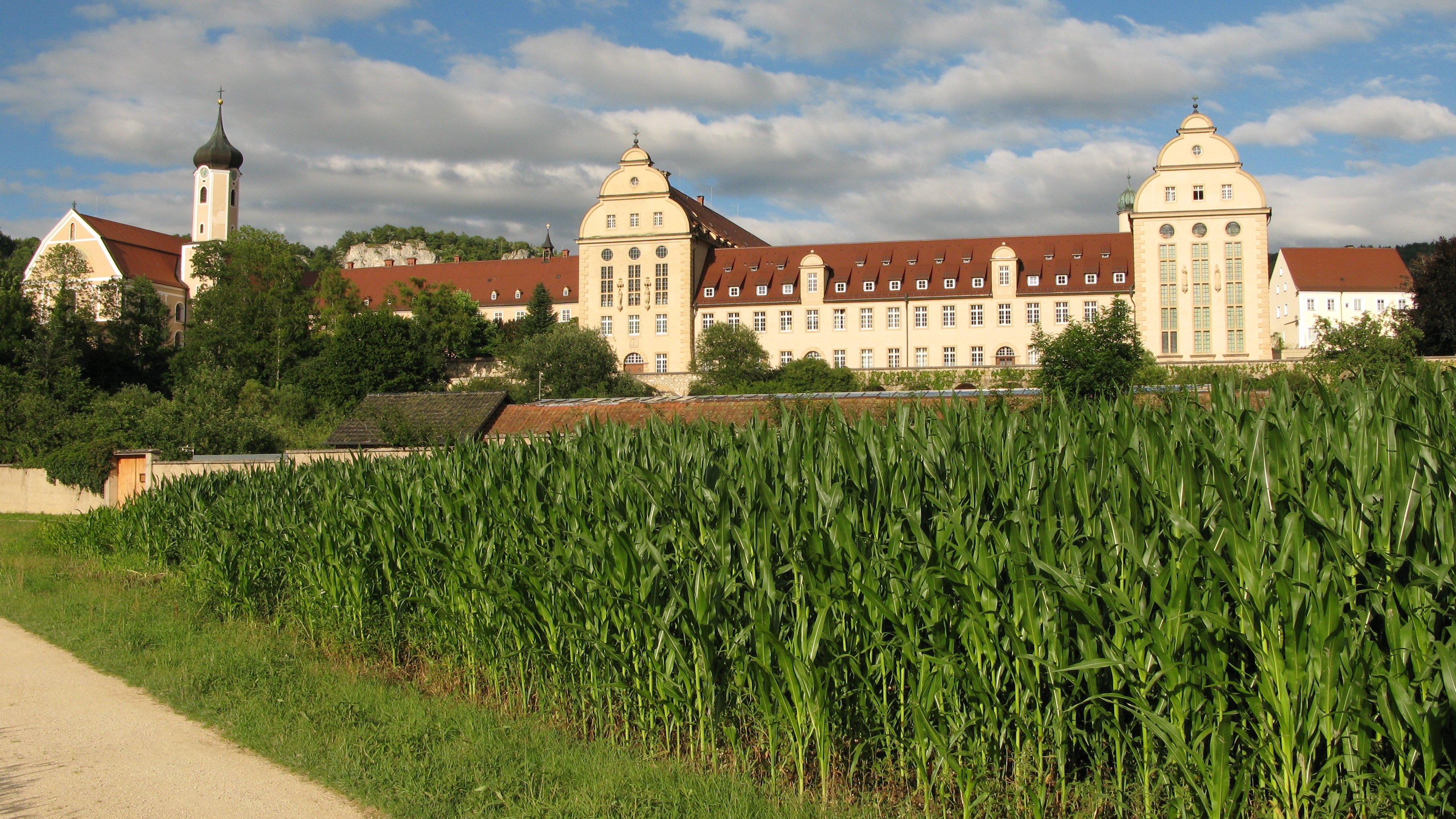 Beuron: St. Martin Archabbey